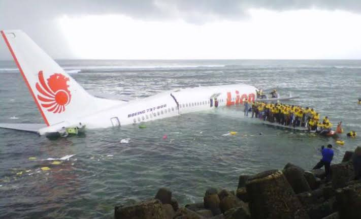 Lion Air Flight 904 as it came to rest short of the runway at Ngurah Rai International Airport, Bali, Indonesia, on 13 April 2013.